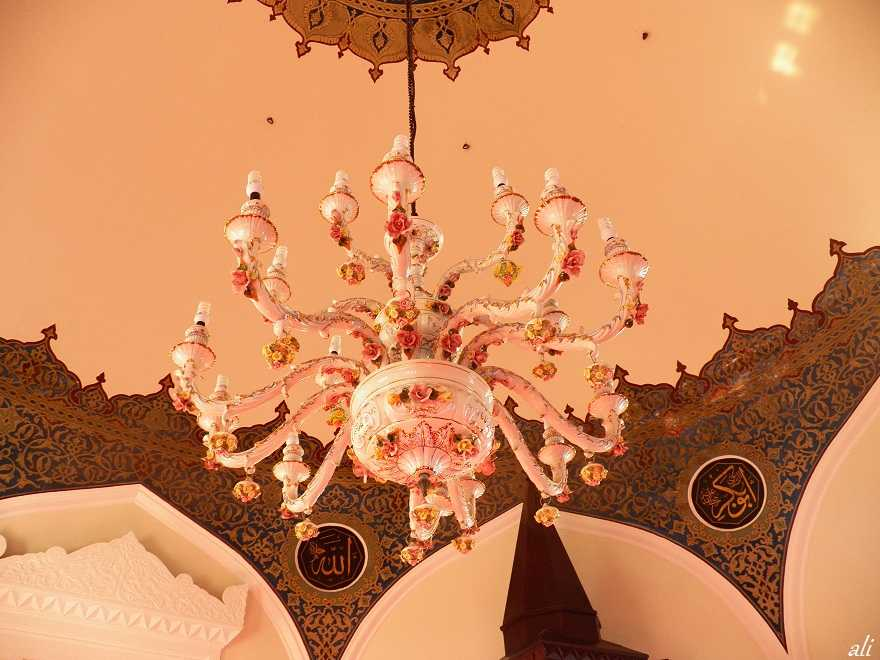 Chandelier inside the Yalı Mosque